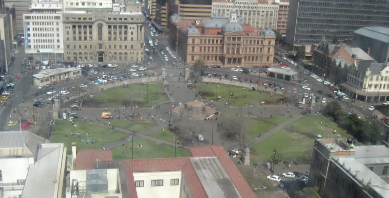 Church Square picture taken looking south at Ou Raadsaal.